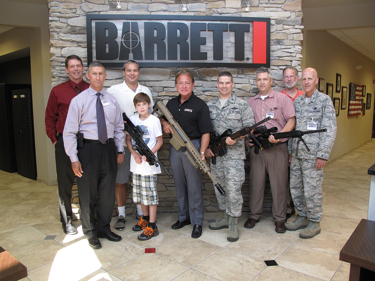 Col. Raymond Toth, Arnold Engineering Development Complex's (AEDC) Commander, and several AEDC staff members got a look at the Barrett Firearms Manufacturing Inc. factory near Murfreesboro. Left to right, AEDC Executive Director Douglas Blake, AEDC Chief of Staff Ken Jacobsen, Tennessee Representative Judd Matheny, Judd’s son Aulden, Barrett’s Firearms Manufacturing Inc. CEO Ronnie Barrett, AEDC Commander Col. Raymond Toth, AEDC Historian Chris Rumley, Matheny’s visitor Steve Chester and AEDC Test Support Division Director Col. James Krajewski take a break during AEDC’s recent visit to the Barrett Firearms factory near Murfreesboro.